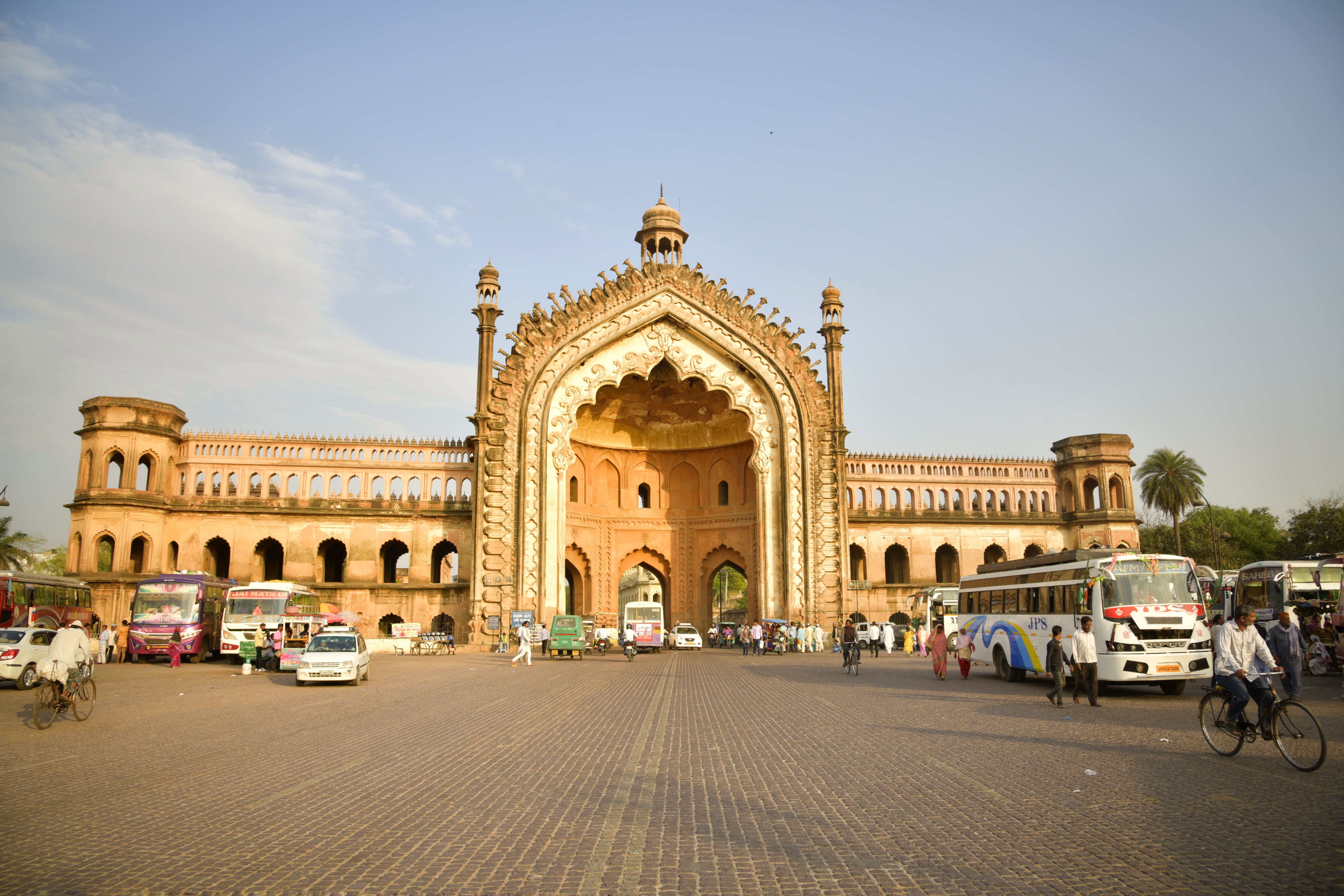 This image is of Rumi Darwaza (lucknow uttar pradesh).This massive gate is situated between Bara Imambara and Chota Imambara. This place is generally very much busy all day, and during weekends most of the tourists visit. The streets are re developed as it was earlier constructed of hard brick roadways.